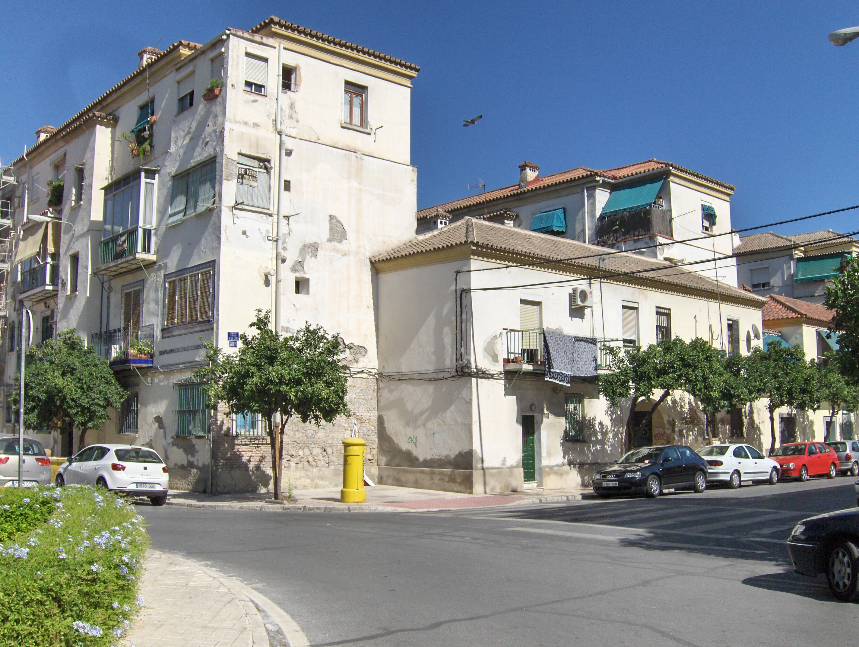 Haza Cuevas neighbourhood, Málaga, Spain.